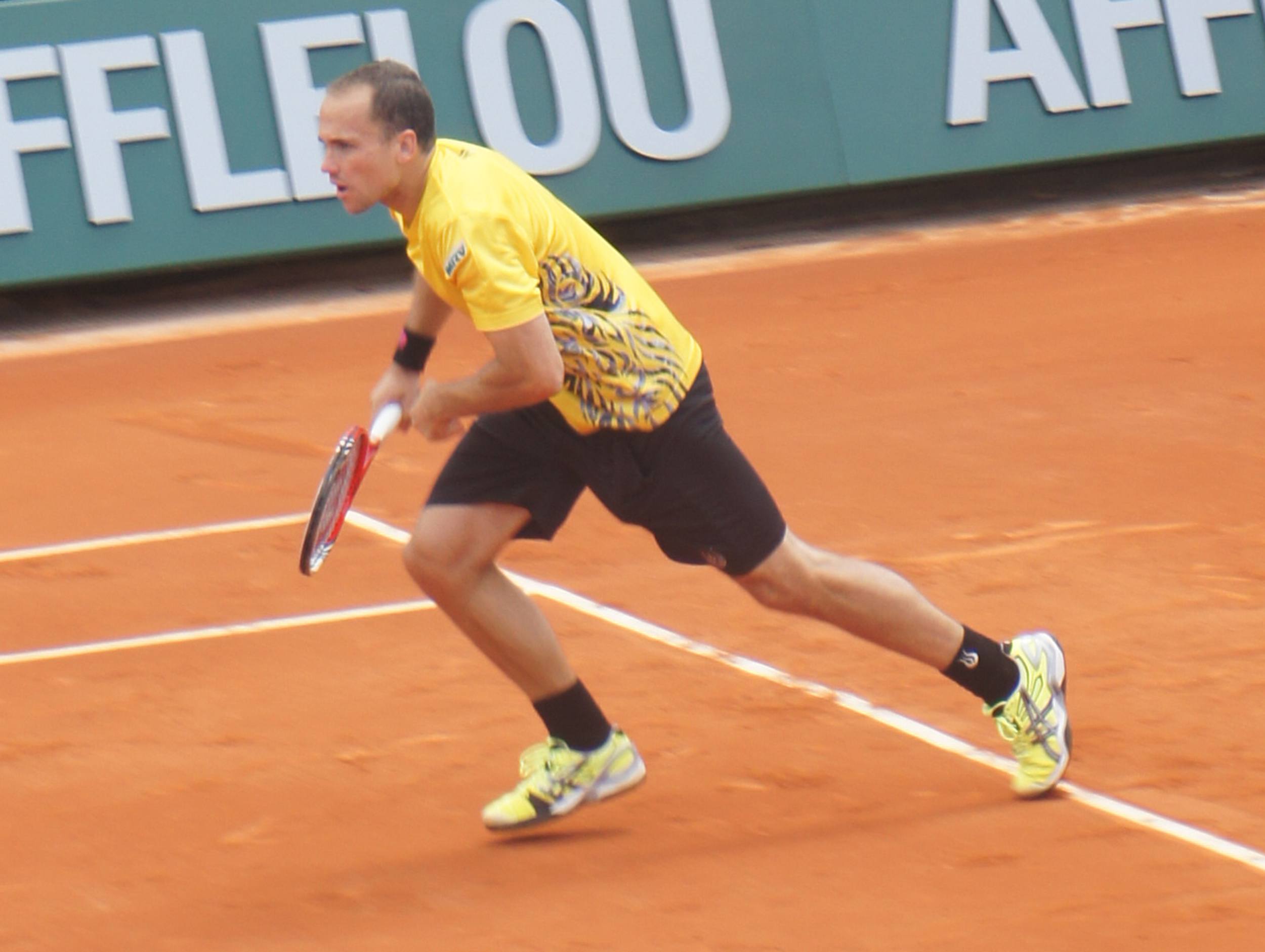 French open 2nd double